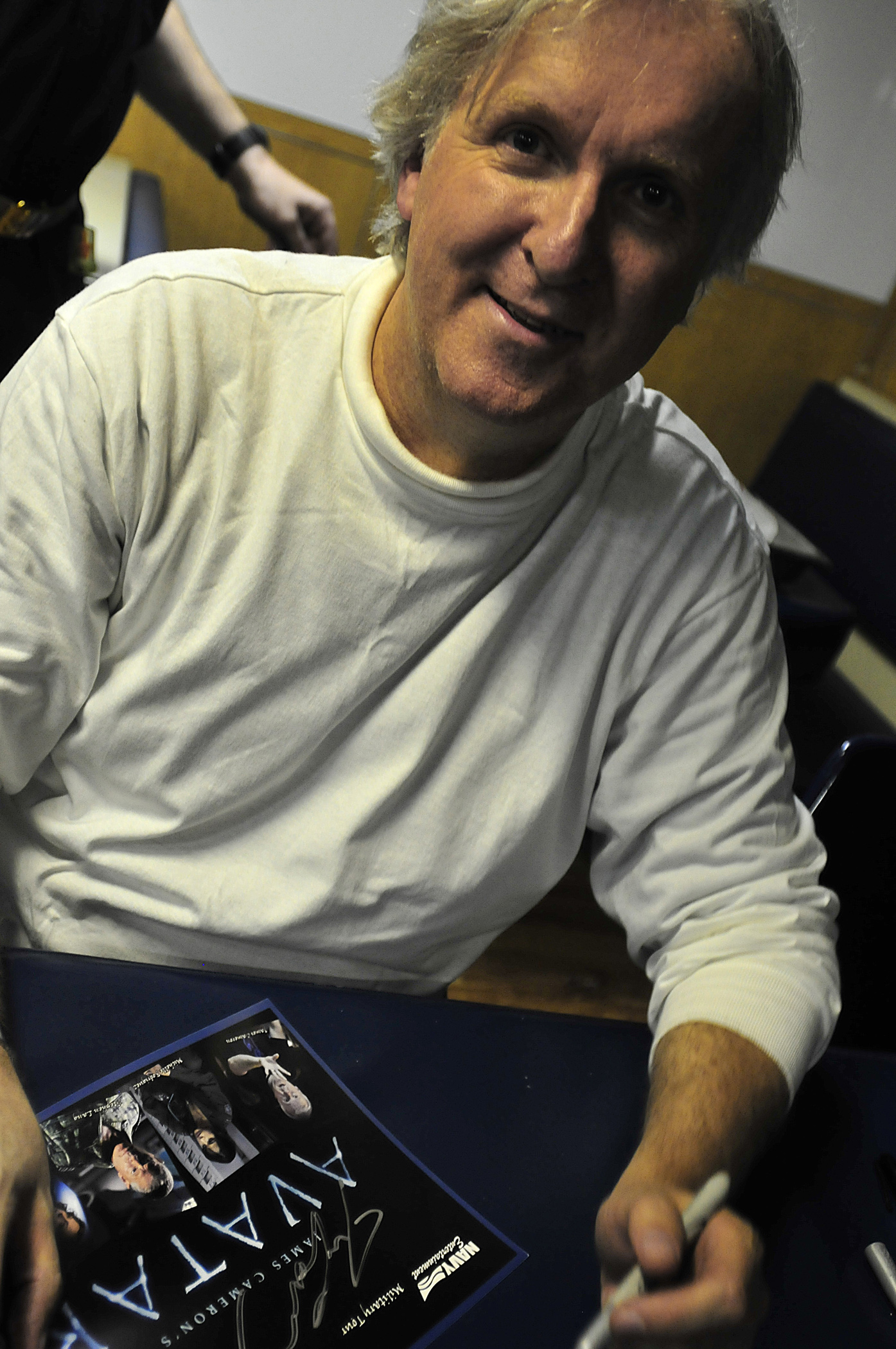 James Cameron, director of the film Avatar, signs autographs for fans while touring guided-missile cruiser USS Hue City (CG-66) Jan. 27, 2010. Cameron, Avatar actor Stephen Lang and actress Michelle Rodriguez toured the ship and spoke with sailors as part of a special Navy Entertainment event.